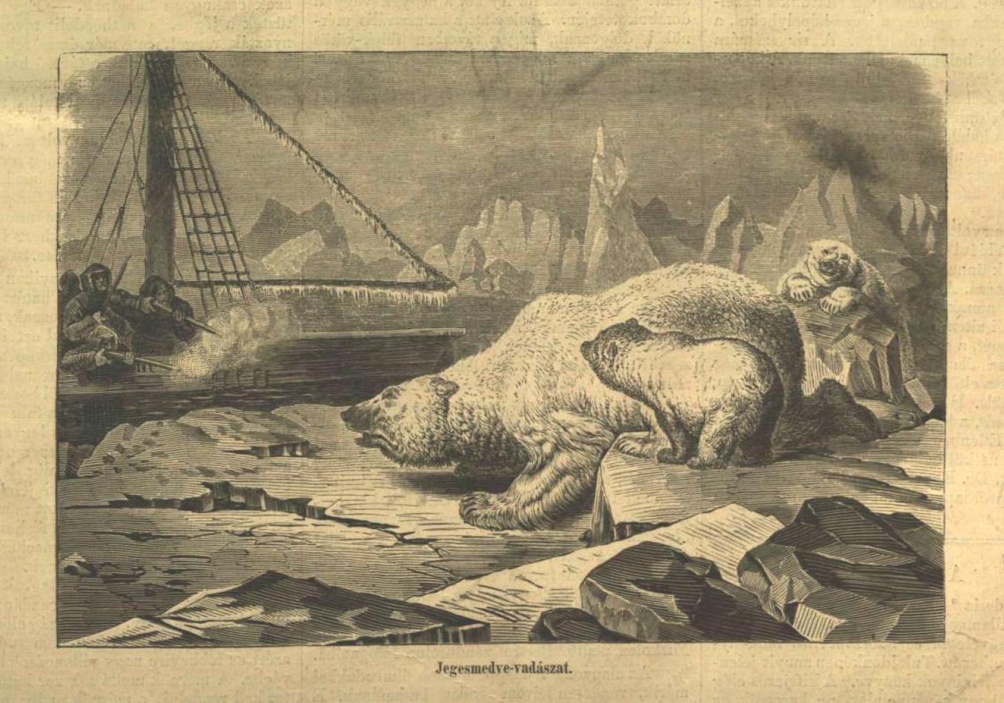 The Austro-Hungarian North Pole Expedition: hunting ice bears.